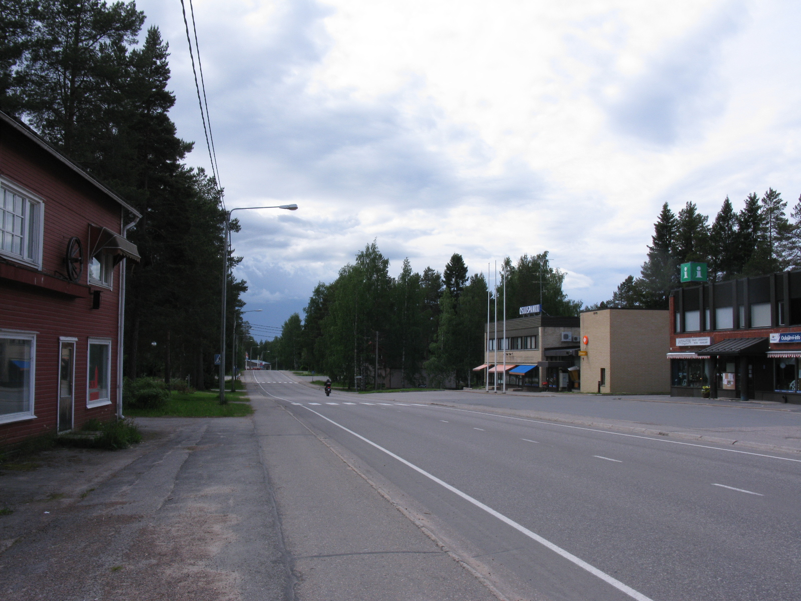 Vaalantie road (regional road 800) at the centre of the municipality of Vaala, Finland.